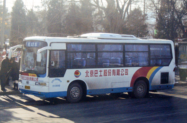 A Pingxiang PK6802H at Xiyuan.